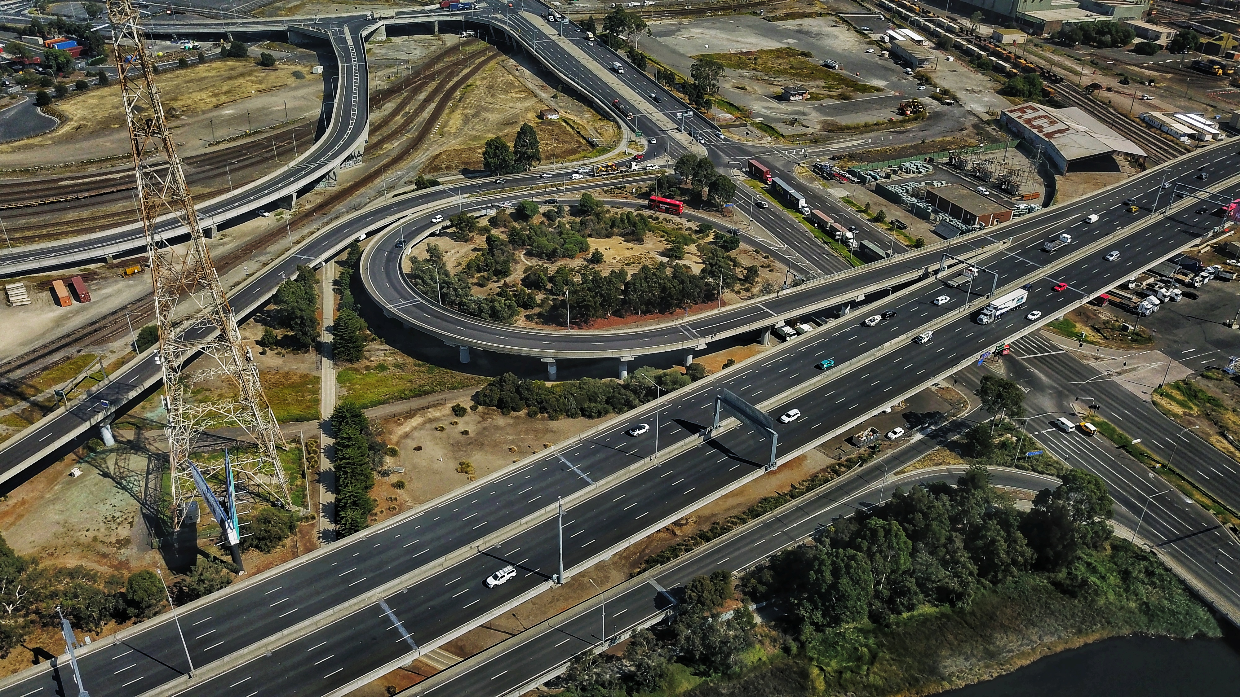 Aerial perspective of the ramp going onto the M2. March 2019.